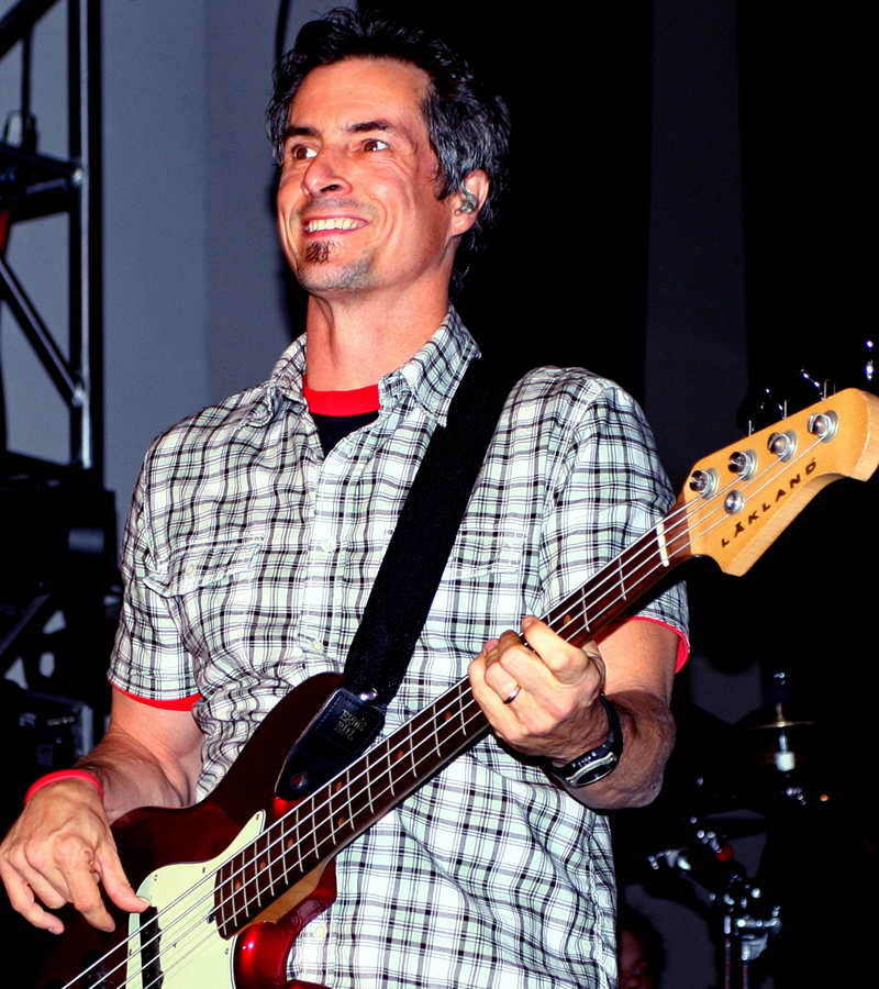 Danny Weinkauf performing with They Might Be Giants in 2010